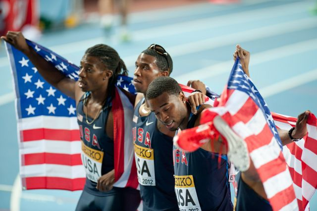 4x400 m relay team of USA during 2012 IAAF World Indoor Championships in Istanbul, Calvin Smith, Gil Roberts, Manteo Mitchell (Frankie Wright)